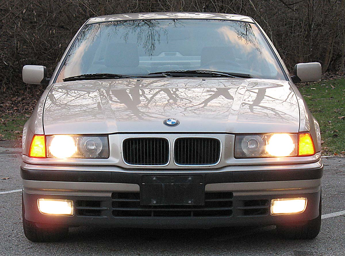 1993 BMW 325i 4-door sedan. Color: Cashmere Beige